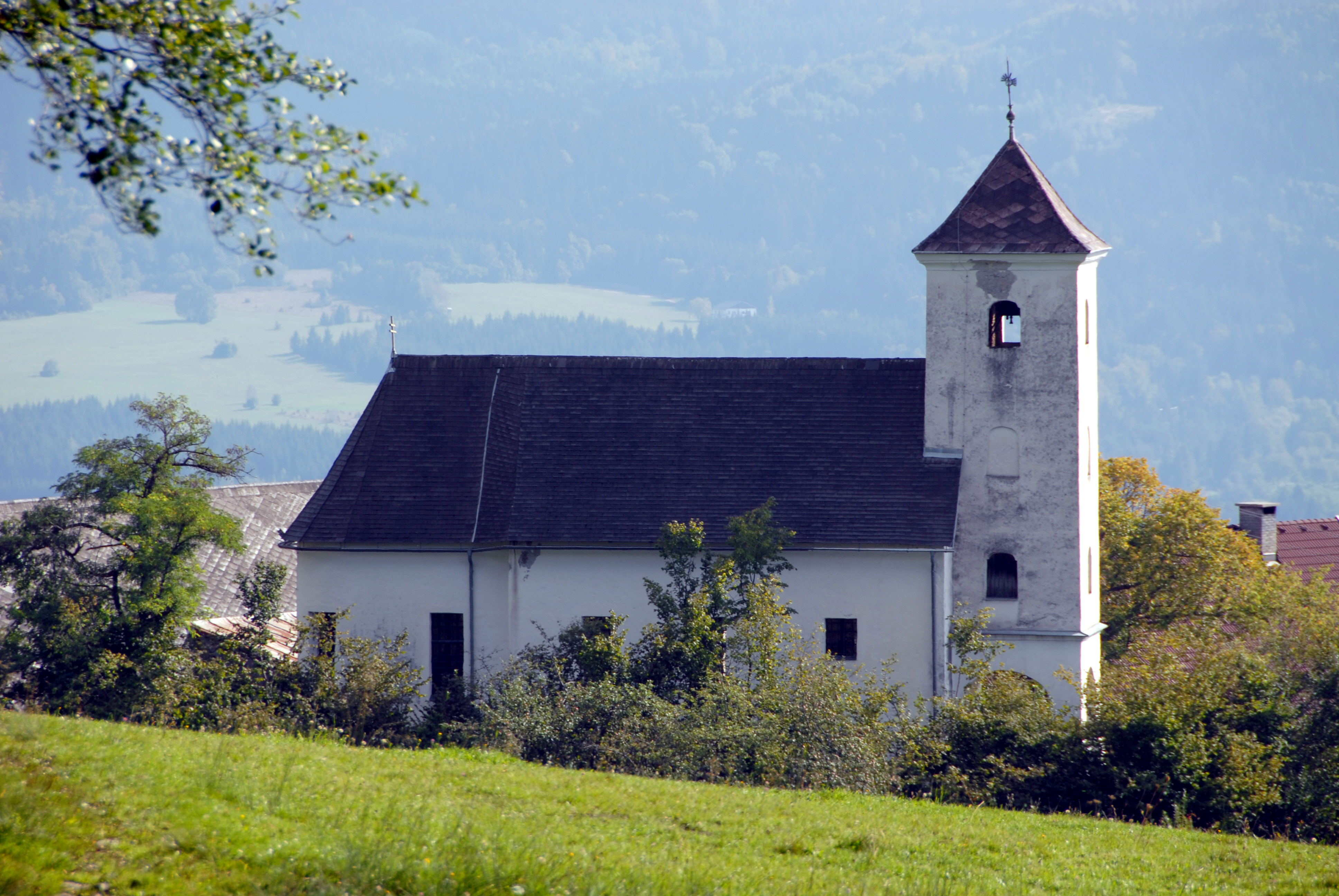 Church of Rupertiberg in the community of Ludmannsdorf (Bilčovs), Carinthia, Austria